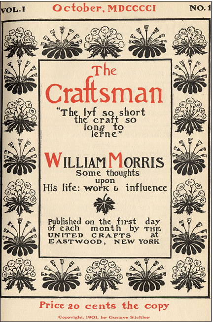 Title page of The Craftsman, an american magazine edited by Gustav Stickley, issue 01, October 1901 — Table of contents : William Morris.